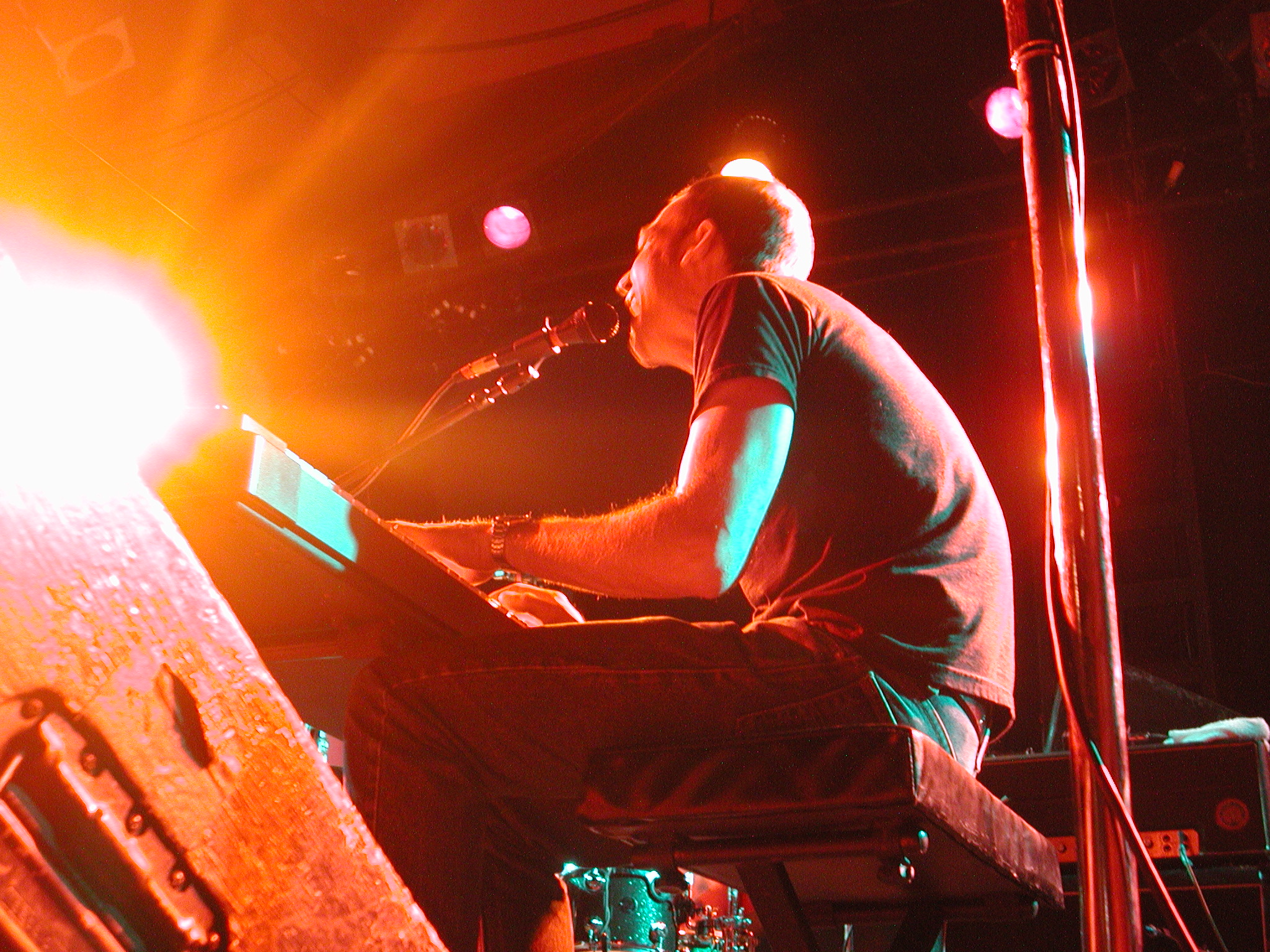 Blake Schwarzenbach playing piano in Jets to Brazil at The Catalyst, Santa Cruz on April 29, 2001. Photo taken with a Nikon E880 and uploaded to Flickr by user "star5112." Released under Creative Commons license: Attribution-Share Alike 2.0.